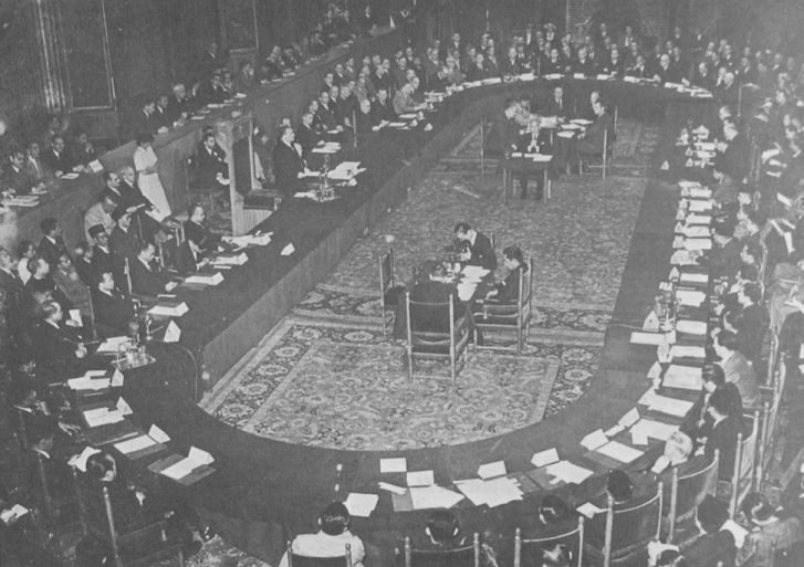 The Dutch-Indonesian Round Table Conference in session, 1949